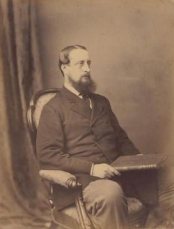 Somerset Lowry-Corry, 4th Earl Belmore (1835-1915)